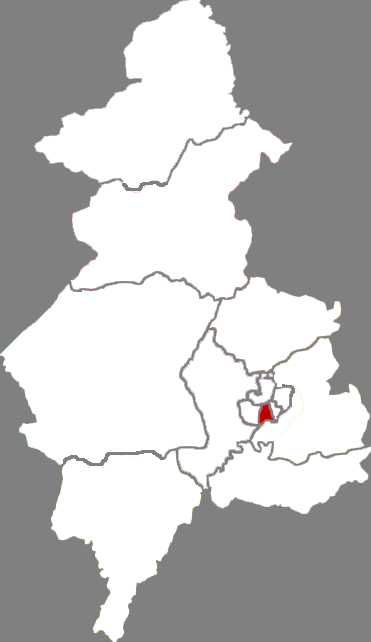 Location of Heping district in Shenyang City, China